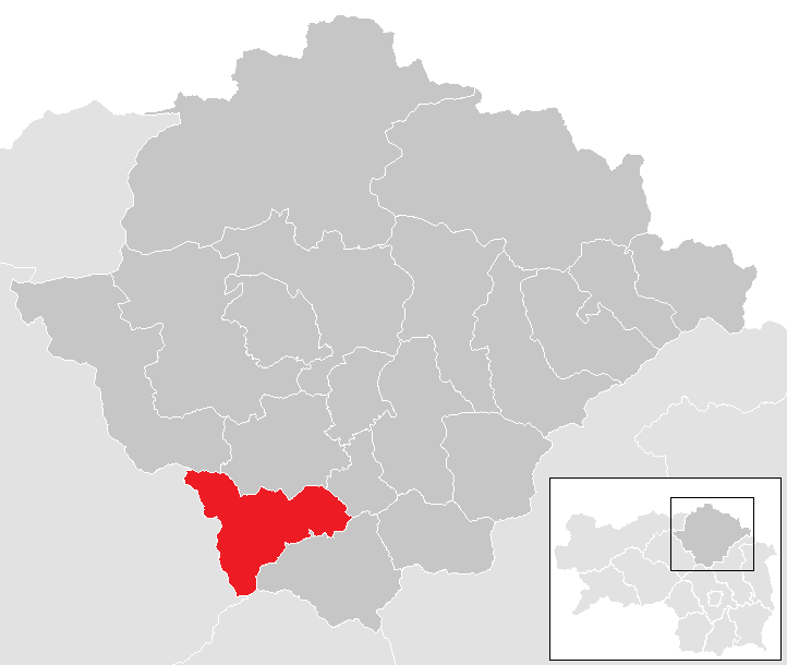 district Bruck-Mürzzuschlag